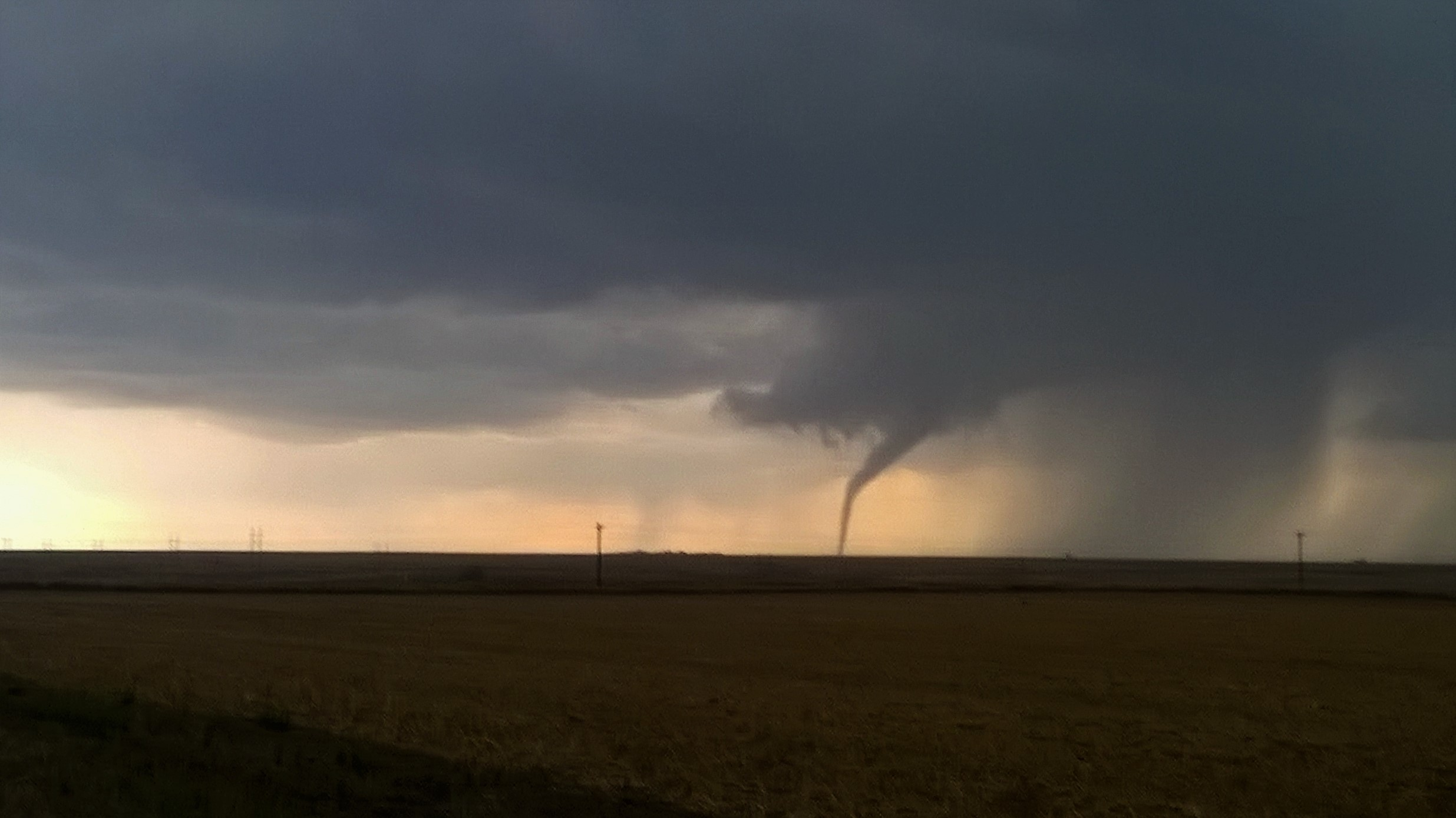 A funnel about to touch down near Eads, Colorado.